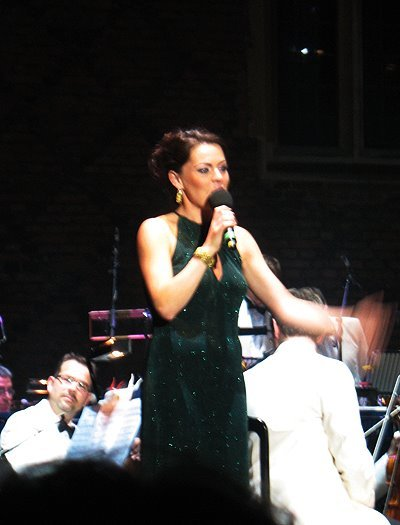 Rachel Tucker performing at 'The Best of Broadway' at Hampton Court Palace 11th June 2009